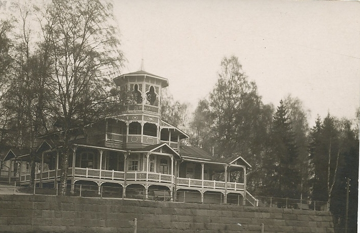 Rantapuisto pavilion in Jyväskylä, Finland